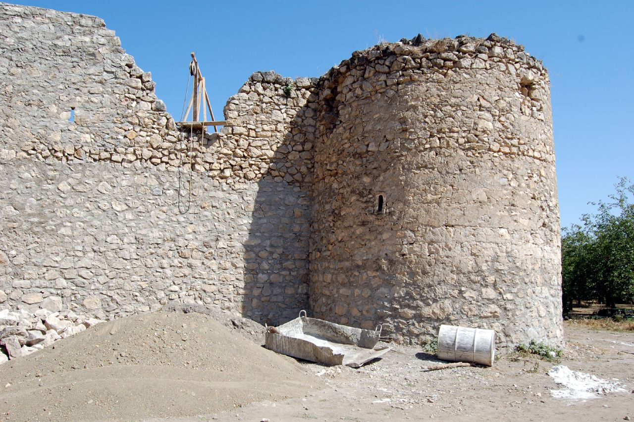 Walls of Amaras monastery, Nagorno-Karabakh.